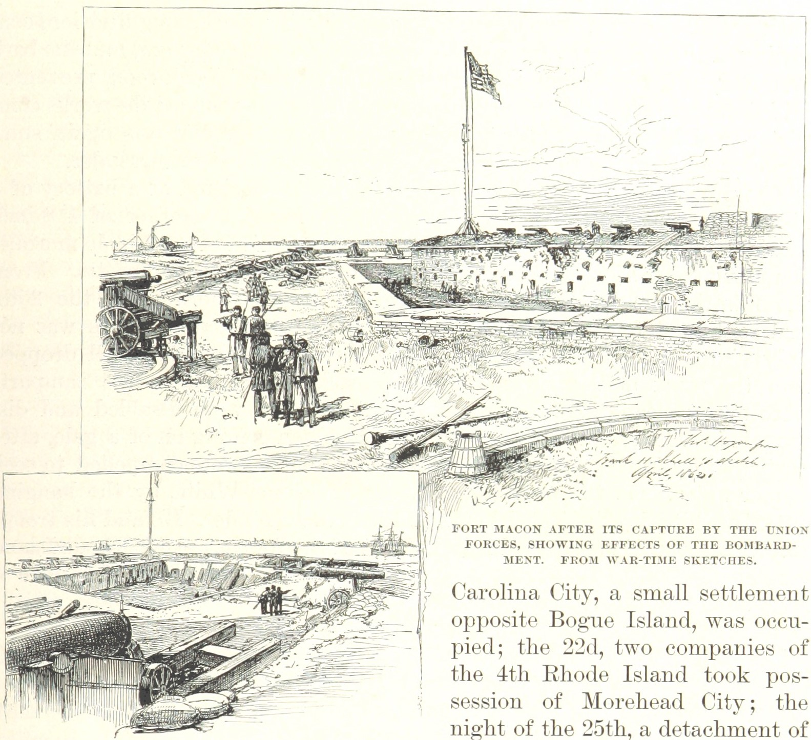 Fort Macon, North Carolina, after its capture at the Siege of Fort Macon.